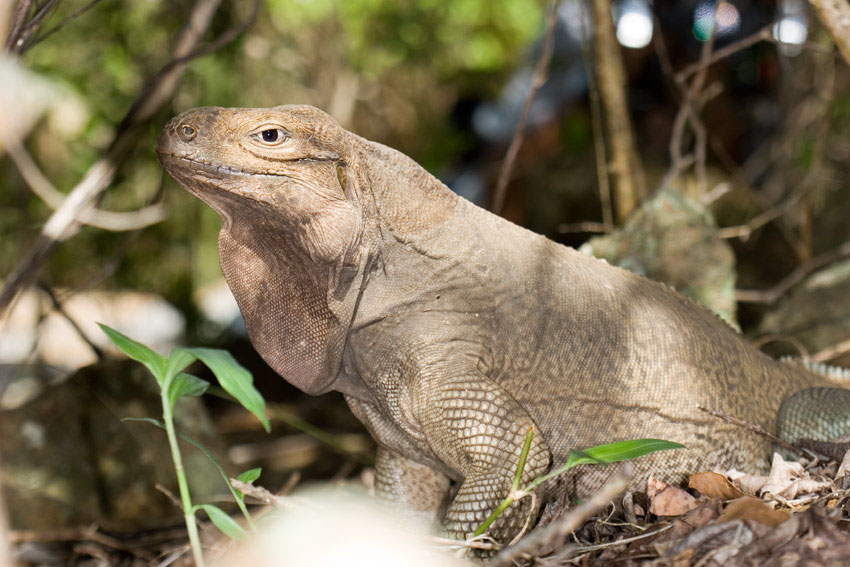 This is a photograph of Cyclura pinguis taken by Father Alejandro Sanchez on Anegada. He has given his permission to use this photograph on Wikipedia.